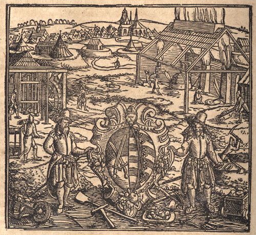 Illustration from: Petrus Albinus: Meisznische Land und Berg-Chronica, in welcher ein vollnstendige description des Landes … der dorinnen begriffenen … Bergwercken, sampt zugehörigen Metall un(d) Metallar beschreibungen …. Dresden, (G. Berg), 1589-1590